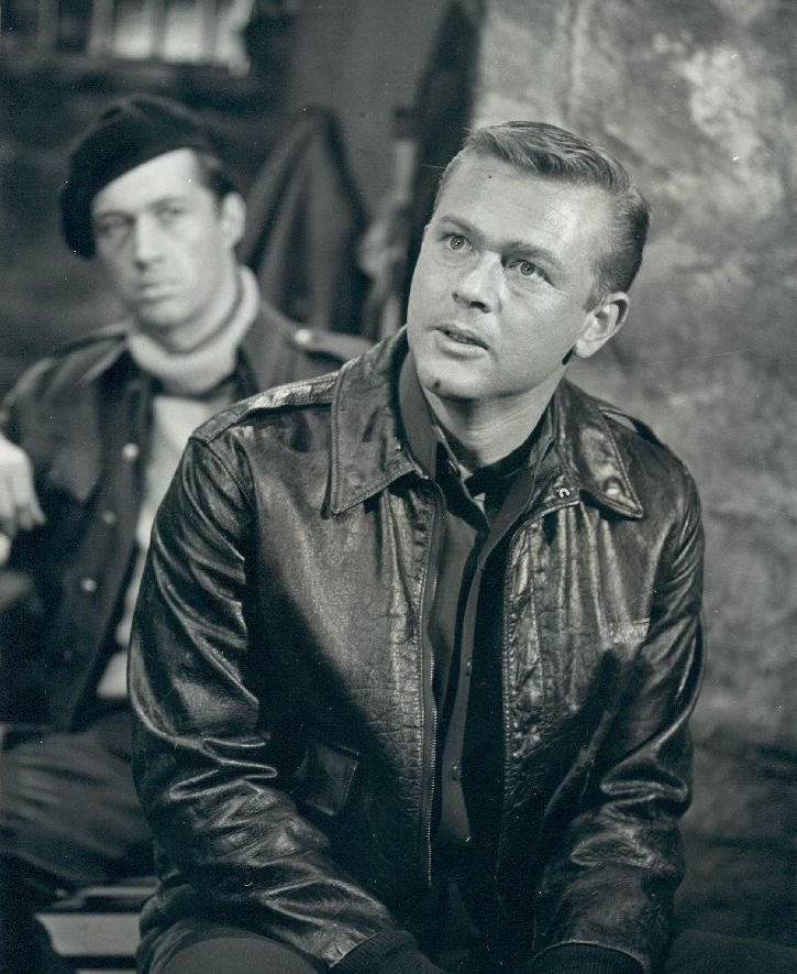 Martin Milner (front) and David Carradine (back) in "The War and Eric Kurtz", part of Bob Hope Presents the Chrysler Theatre. This was aired on NBC.